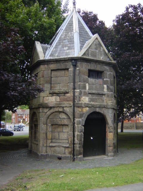 Wavertree Lock-up. Situated opposite the old Abbey cinema building and near the Wavertree clock-tower, this funny little round house on the village green was an overnight lock-up kept busy with drunks from the numerous hostelries nearby. The green was used as a venue for fairs, bull baiting and cock fighting. Wavertree still retains some of its village atmosphere despite being engulfed by Liverpool.